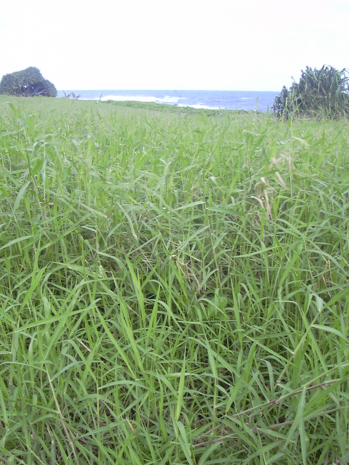 Urochloa mutica (habit). Location: Maui, Kipahulu